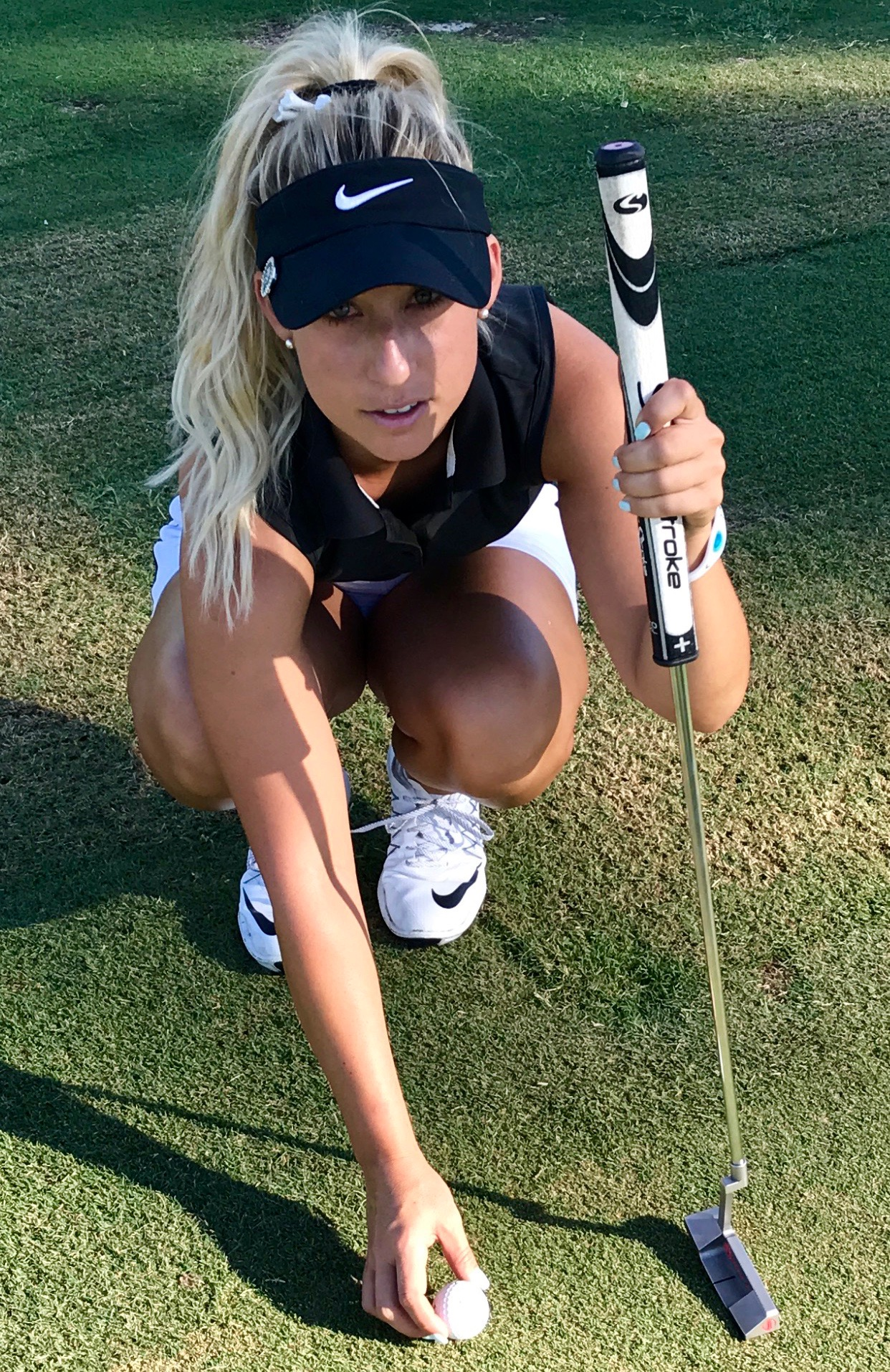 Anna DePalma setting up for a putt